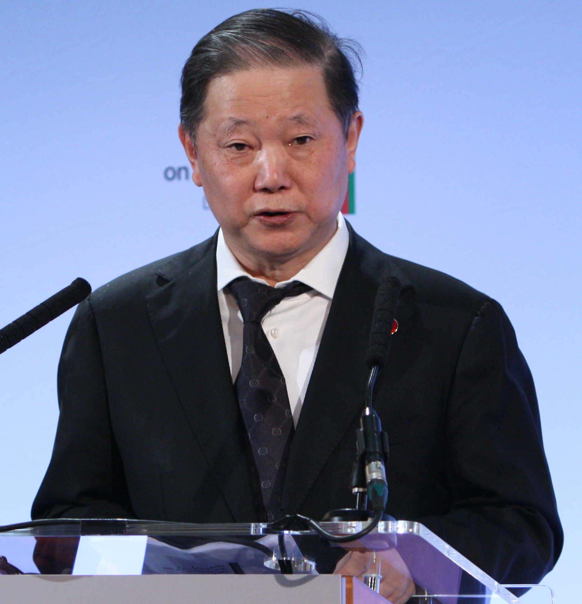 The London Conference on Afghanistan takes place on 4 December 2014, co-hosted by the governments of the UK and Afghanistan. The Conference brings together the Afghan government and international community in support of a secure and peaceful future for Afghanistan. Find out more at: Picture: Patrick Tsui/FCO Free-to-use photo This image is posted under a Creative Commons - Attribution Licence, in accordance with the Open Government Licence. You are free to embed, download or otherwise re-use it, as long as you credit the source as ‘Patrick Tsui/FCO’.